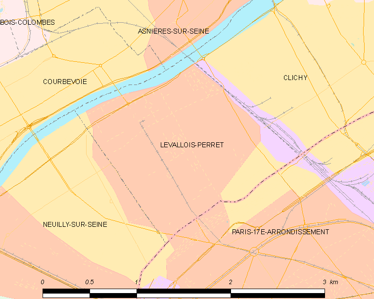 Map of French municipality Levallois-Perret